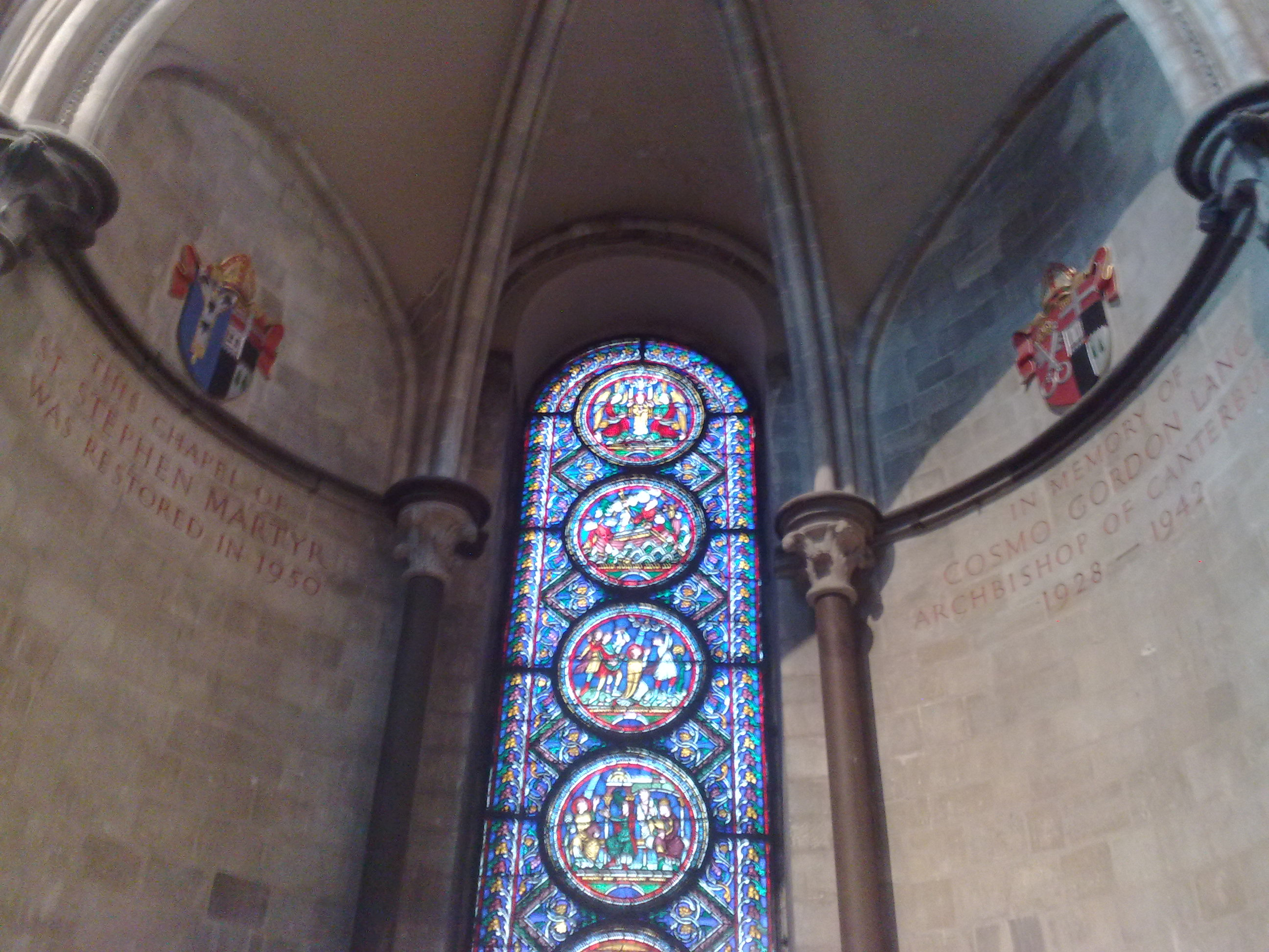 The chapel of St Stephen Martyr, Canterbury Cathedral, restored in 1950 in memory of Cosmo Lang, Archbishop of Canterbury